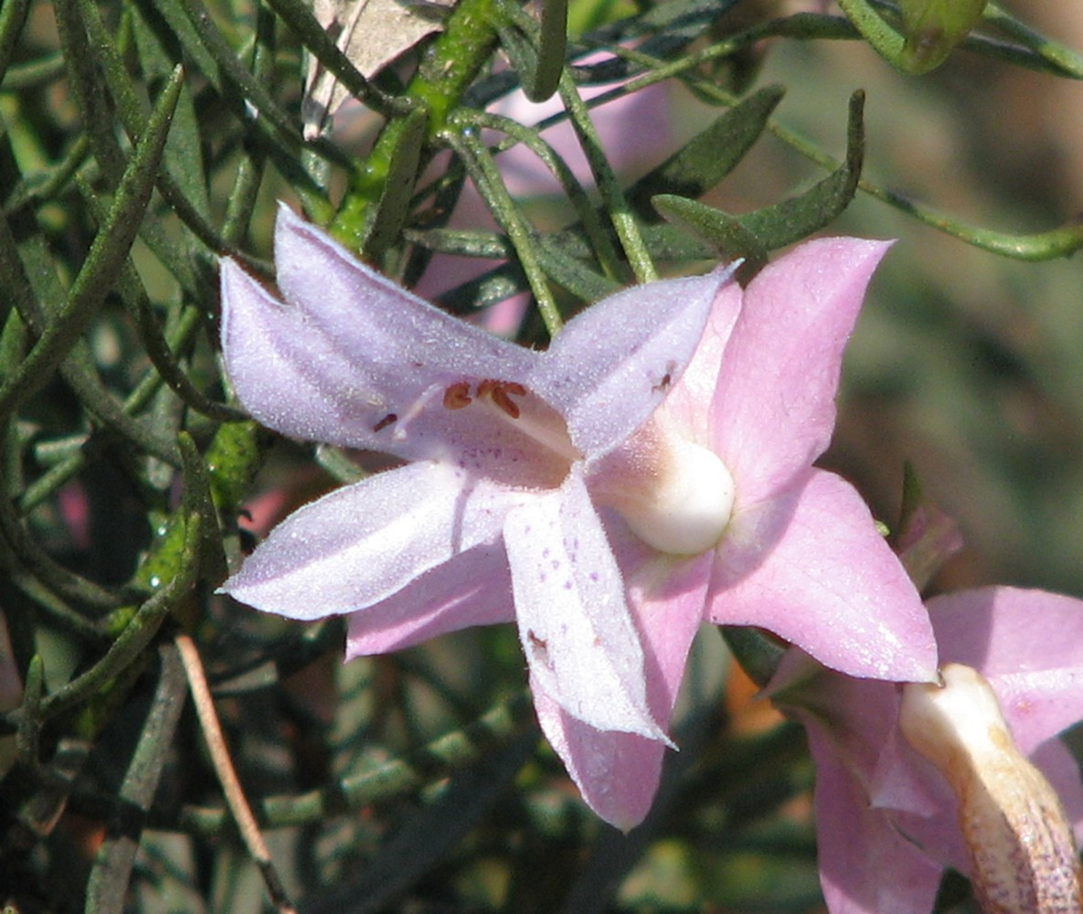 Eremophila abietina (cultivated) Burnley Gardens, Burnley, Victoria, Australia